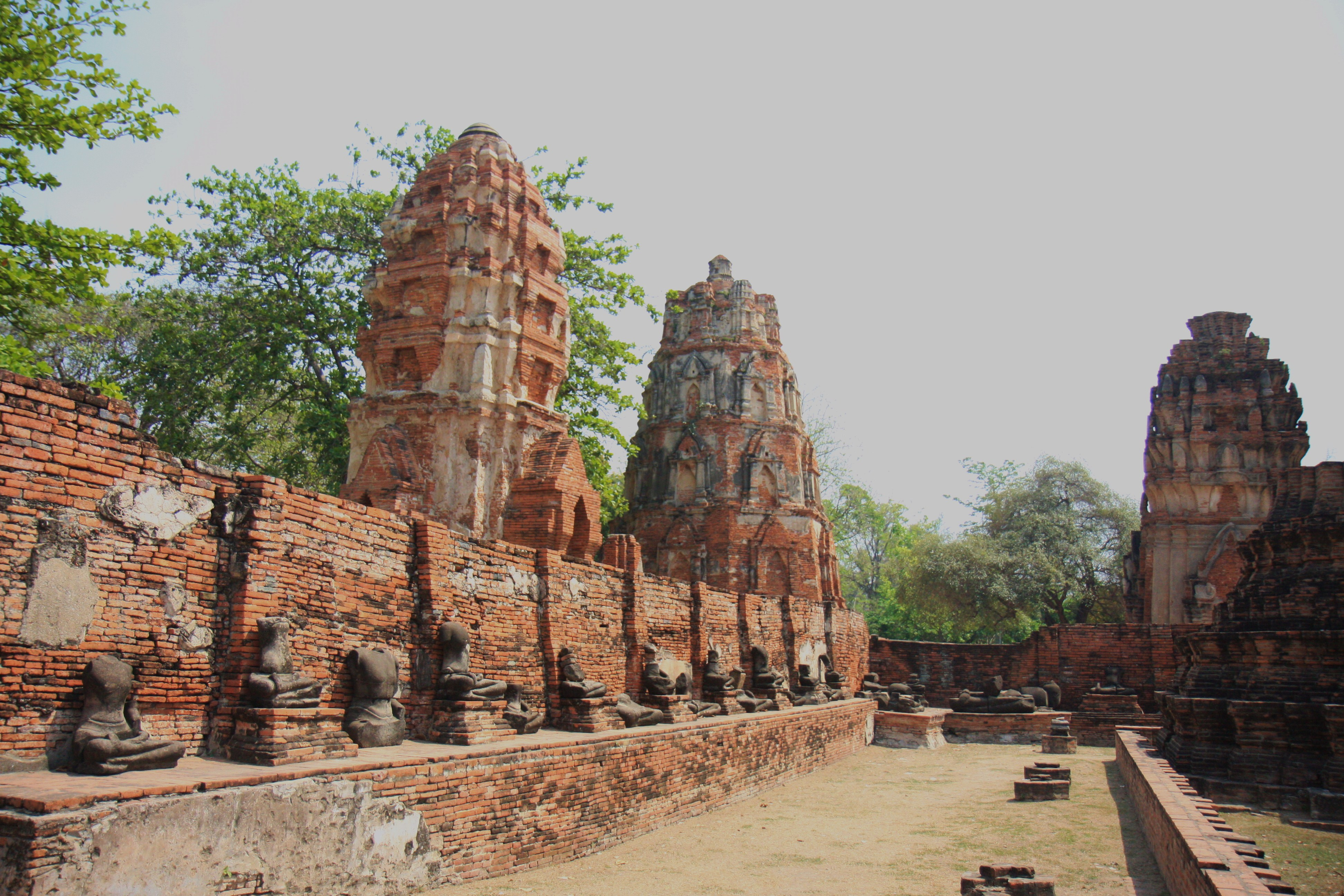 ruins of Wat Mahathat - Ayutthaya.